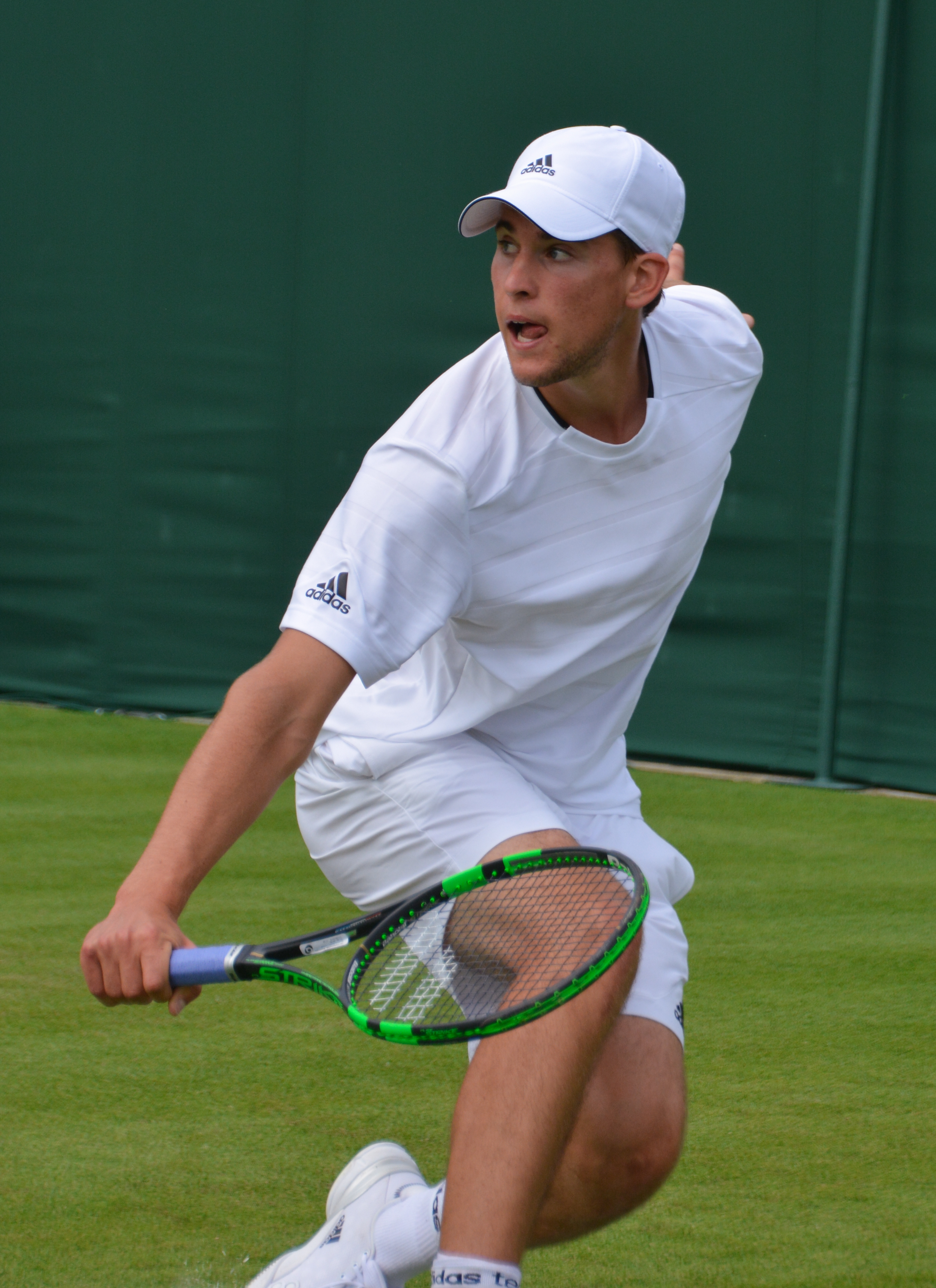 Dominic Thiem